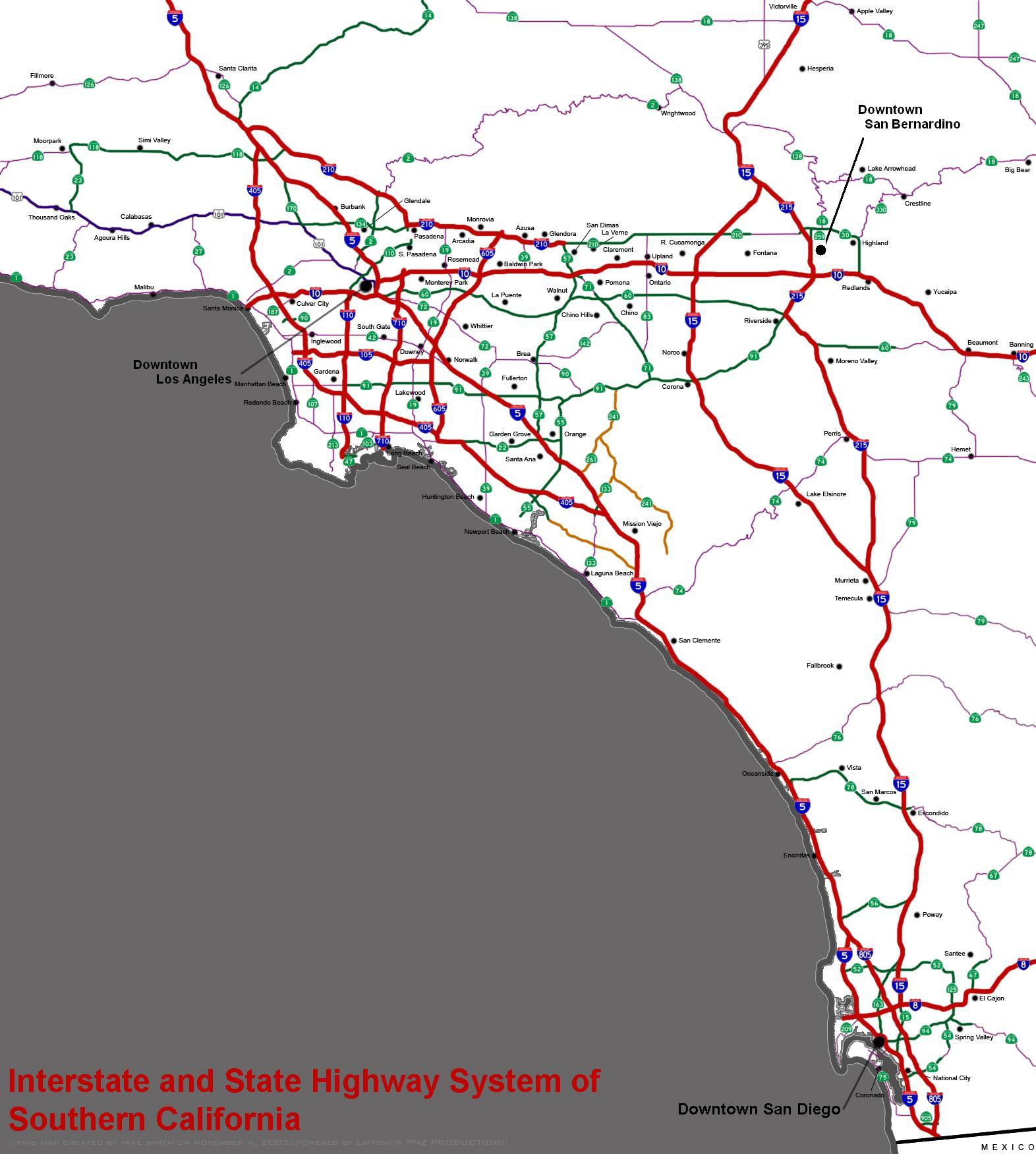 Map of the Southern California Freeway and State Highway System; the map is generally limited to the urbanized and intraurbanized areas of Southern California and along the Pacific Coast. Author: MIKE SMITH, NOVEMBER 4-5, 2005::A PNZ PRODUCTION